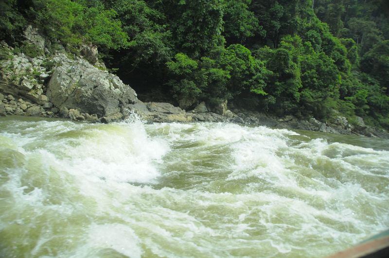 River wave of Bahau River